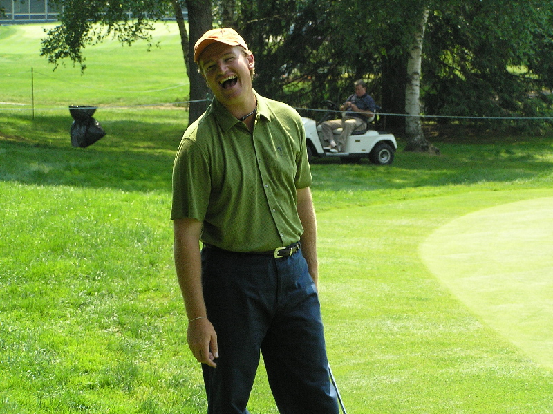 I took this photograph of Ernie Els during a practice round for the 2004 Buick Classic at the Westchester Country Club in Rye, New York. -- GNU Free Documentation License